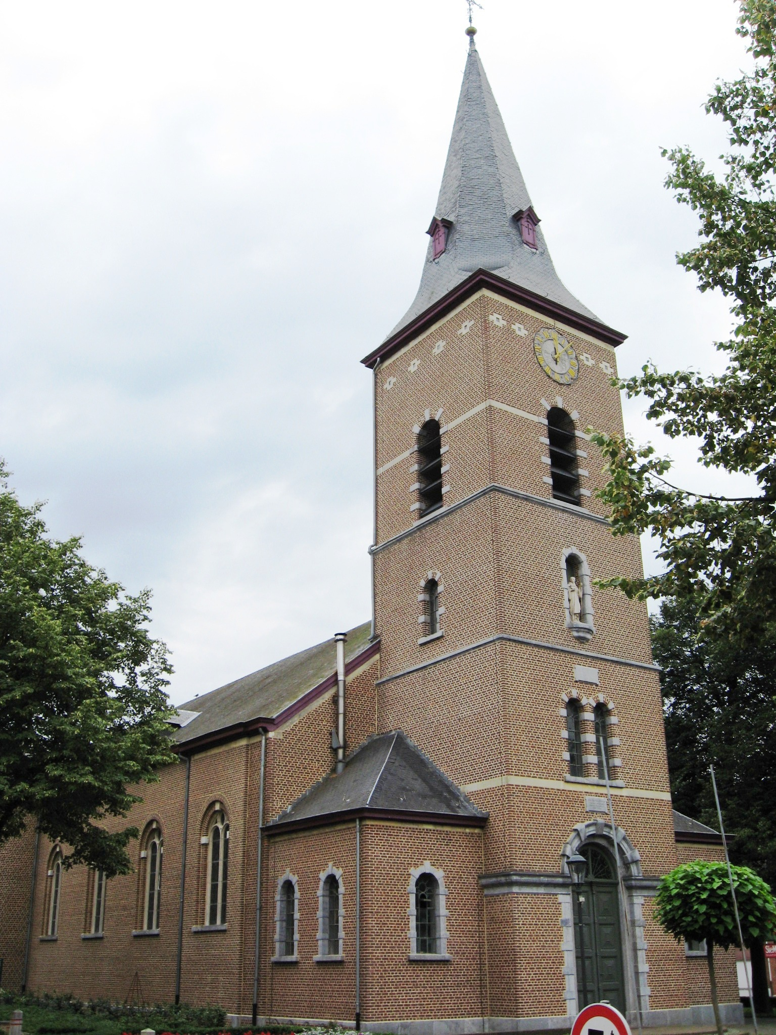 Church of Saint Trudo in Linkhout, Lummen, Limburg, Belgium